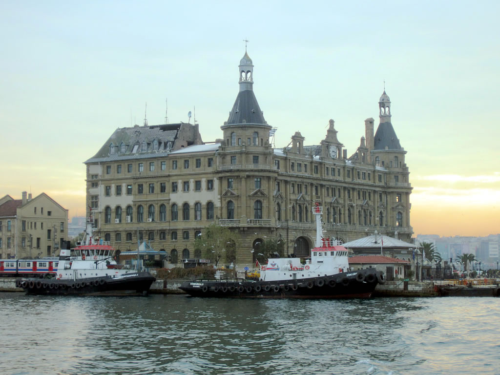 Haydarpasa Station (1909) near Kadikoy across the Bosphorus from Istanbul is the terminus for Asian railway services.